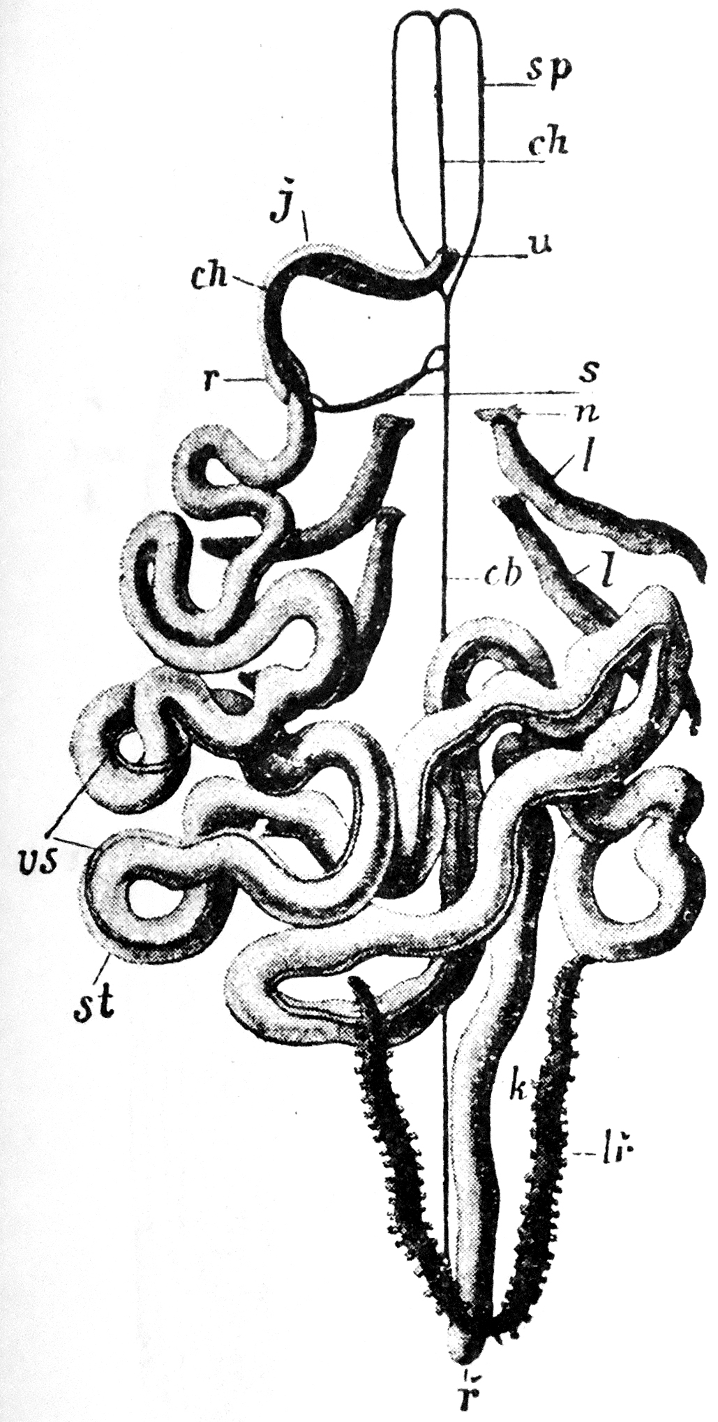 Gastrointestinal and circulatory system of the genus Echiurus, as pictured in Otto's Encyclopedia (Ottův slovník naučný, 1897).